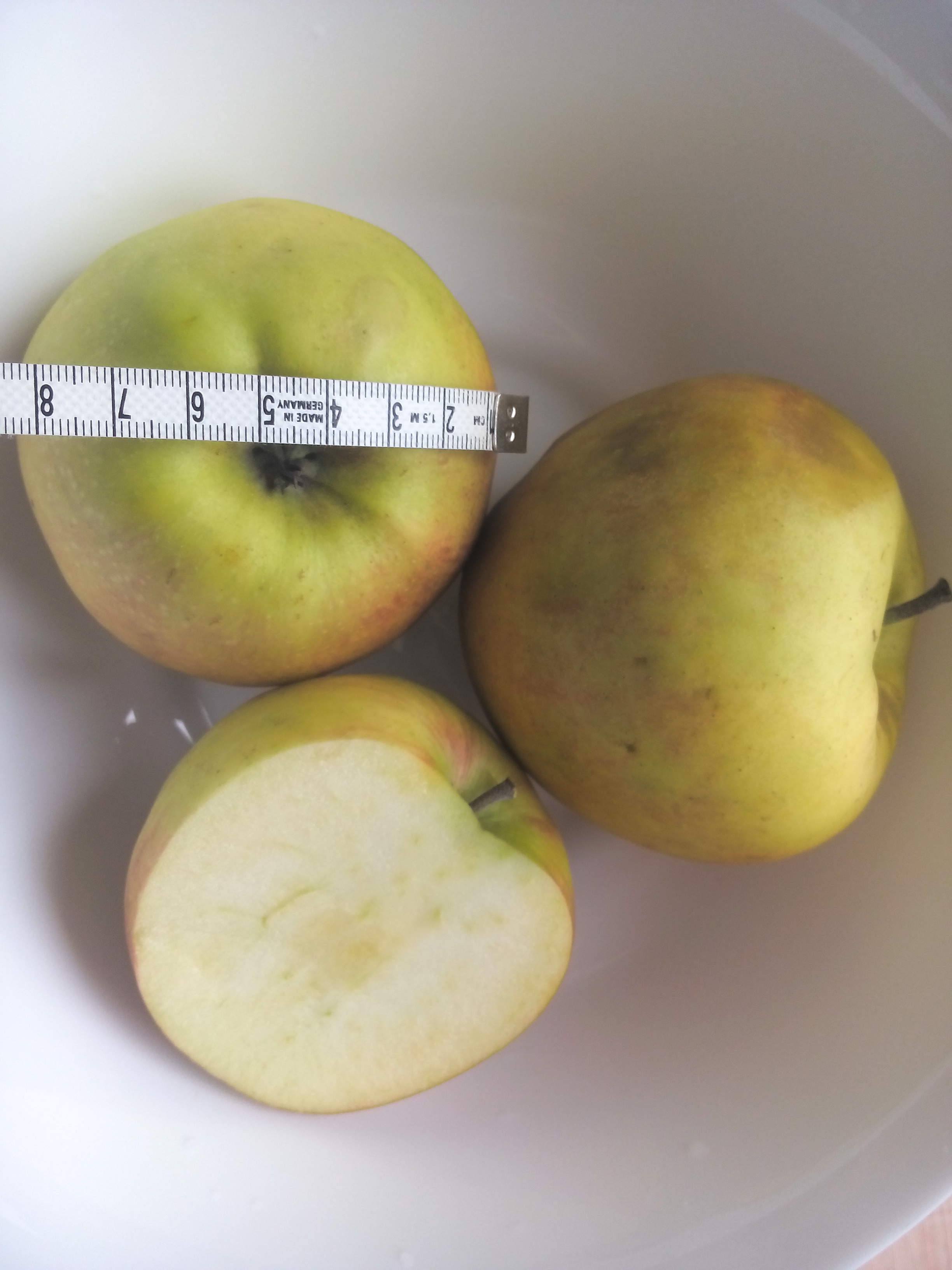 Jonagold, Chernihiv, Ukraine, 2016